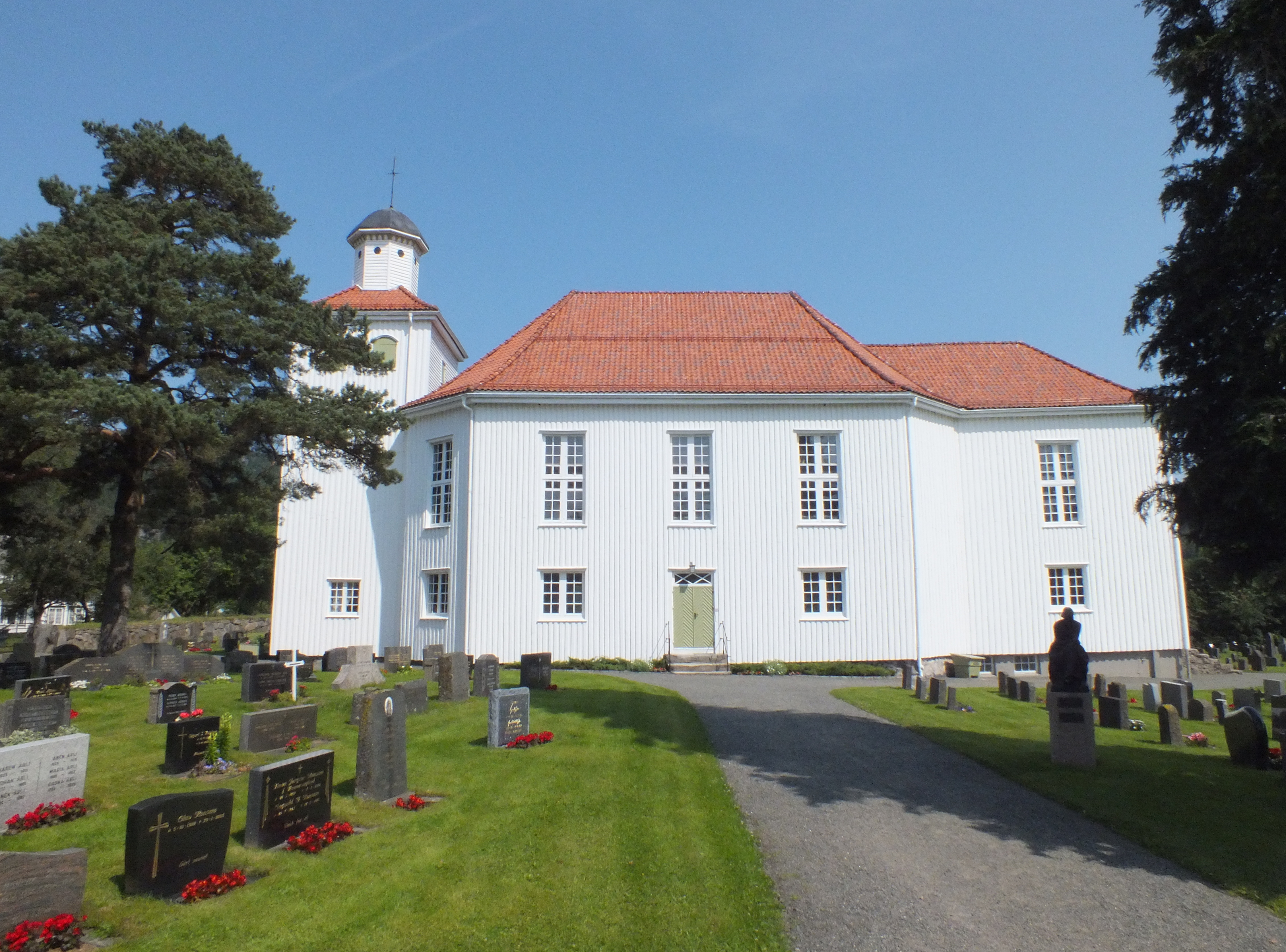 The Kvinesdal church is octogonal.